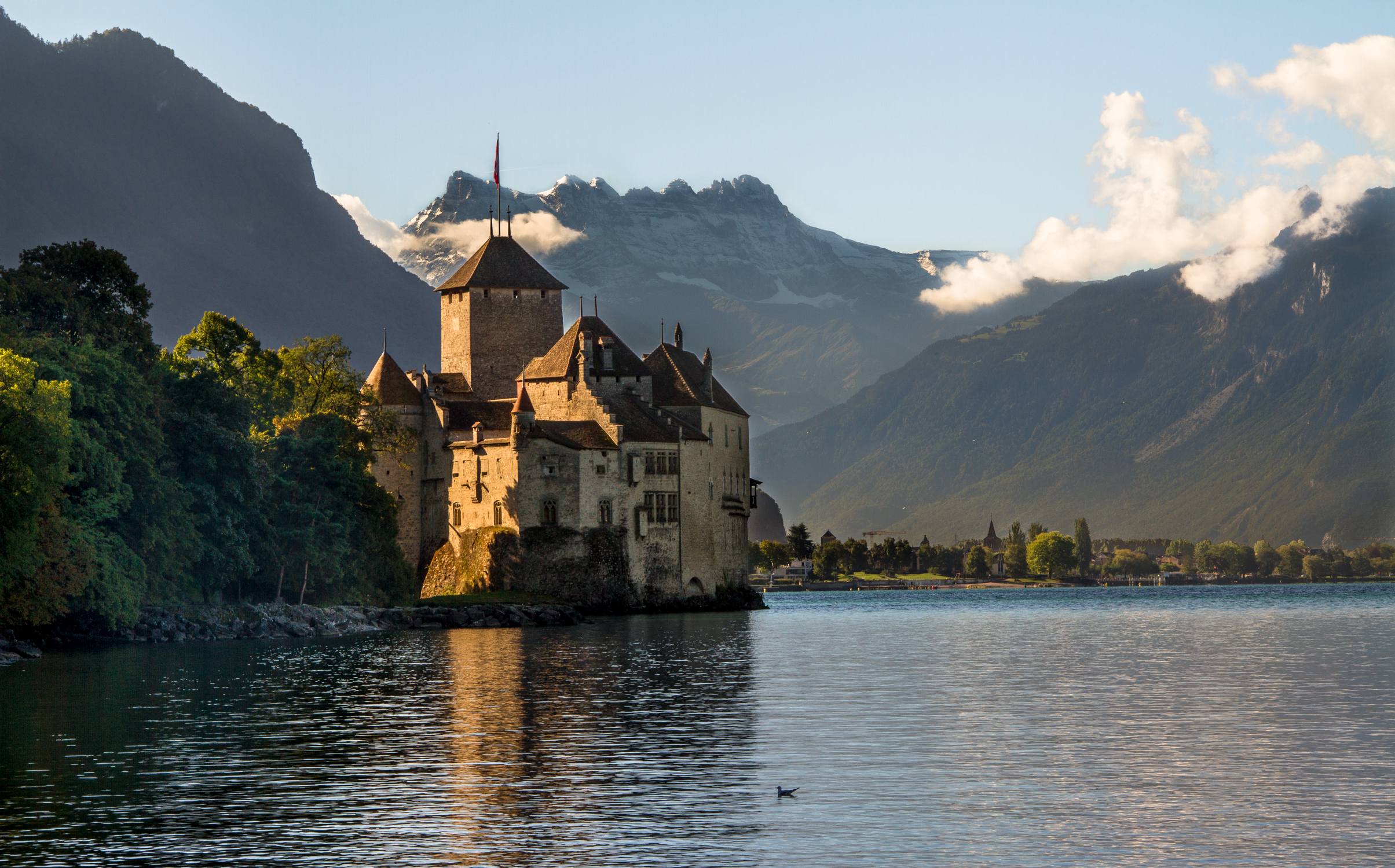 Chateau de Chillon, located five kilometers southeast of Montreux, on the eastern shore of Lake Geneva, Switzerland.